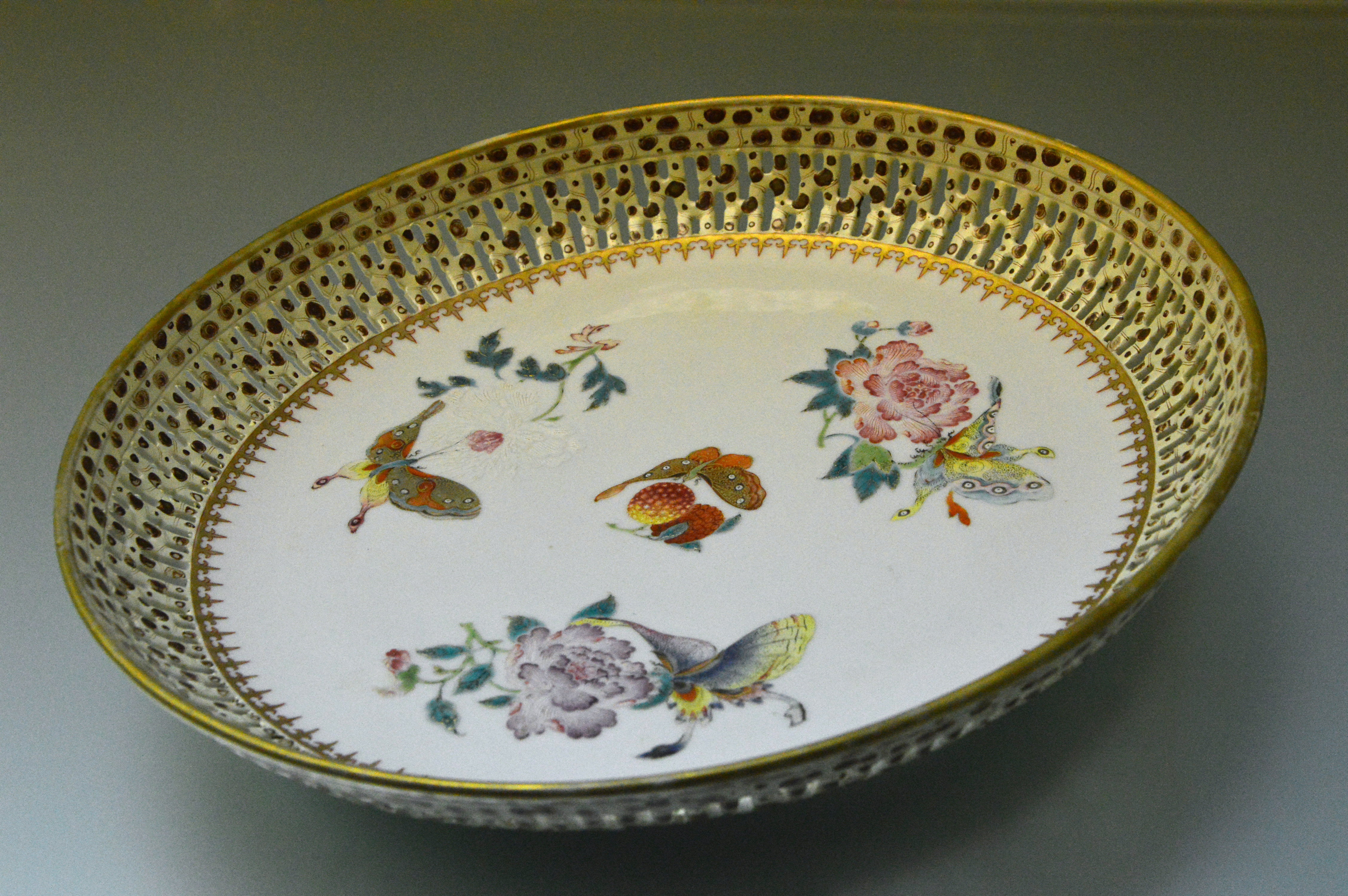 Famille rose plate with butterfly and flower pattern, Qing dynasty, collection of Macao Museum.